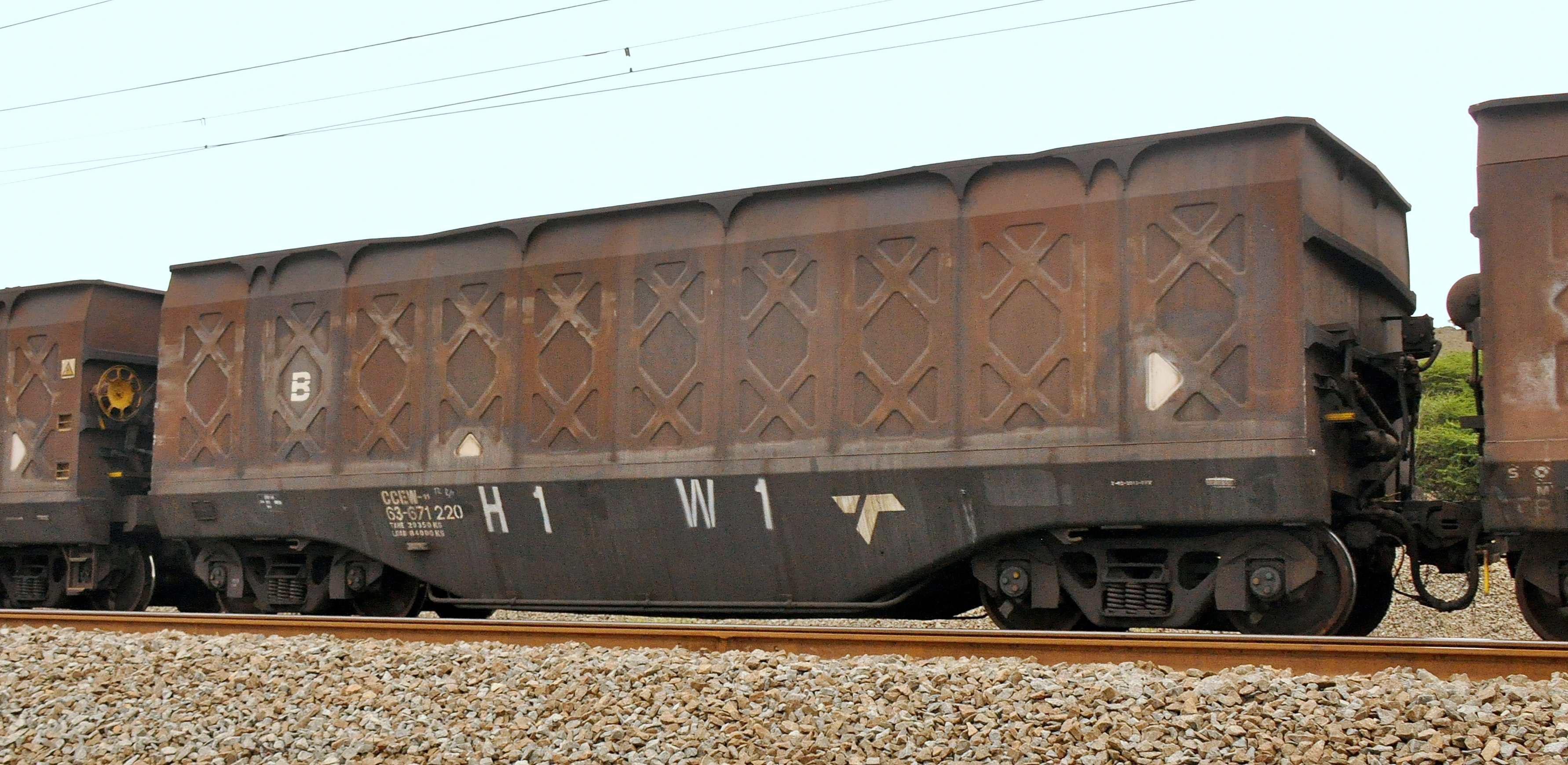 Jumbo car CCEW-13 fitted with Wabtec ECPB (Electronically controlled pneumatic brakes), in Europe better known as ep-brake. The brake cylinder is mounted on the bulkhead of the car. Car number: 63 671 220. Tara: 20.35 t. Load: 84 t, Gross weight: 104.35 t.